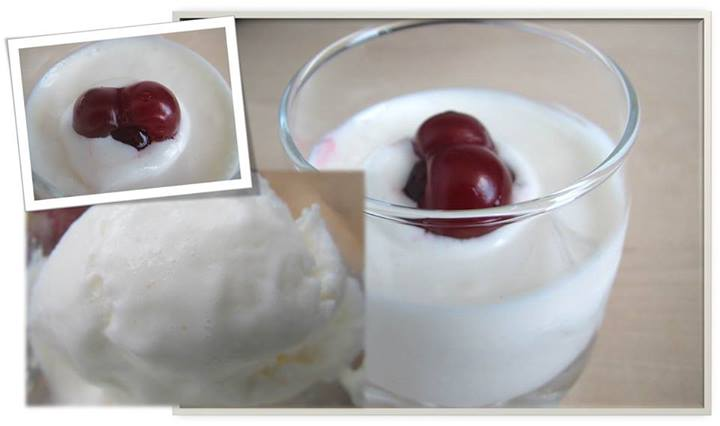 Ice crame is making by user e-citizen (moonsun1981). Ingredients: 3 egg white, 2 tablespoons sugar, 3 tablespoons cream.